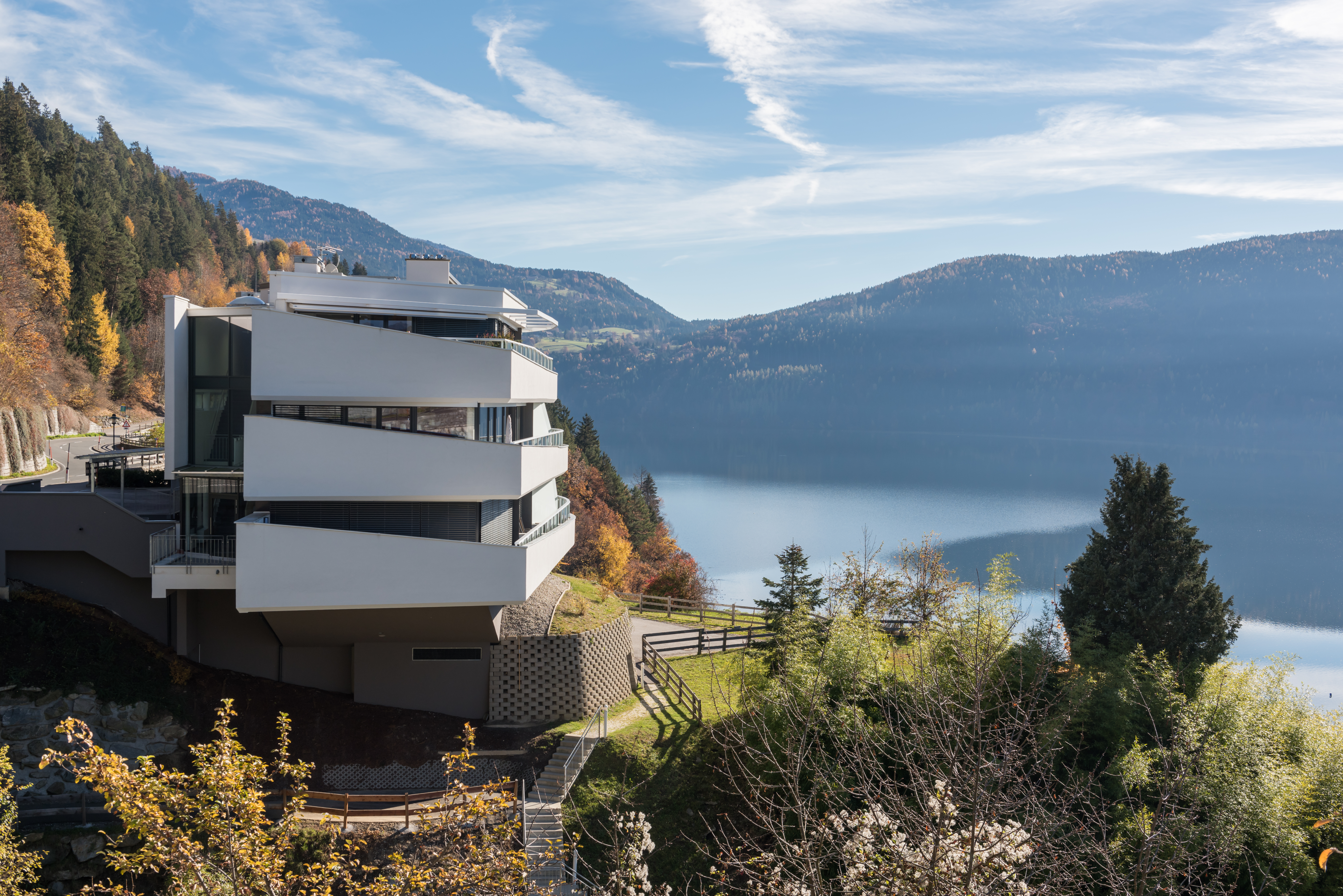 Hotel Sonnenhof in Dellach #9 and the Millstaetter See, market town Millstatt, district Spittal an der Drau, Carinthia, Austria, EU